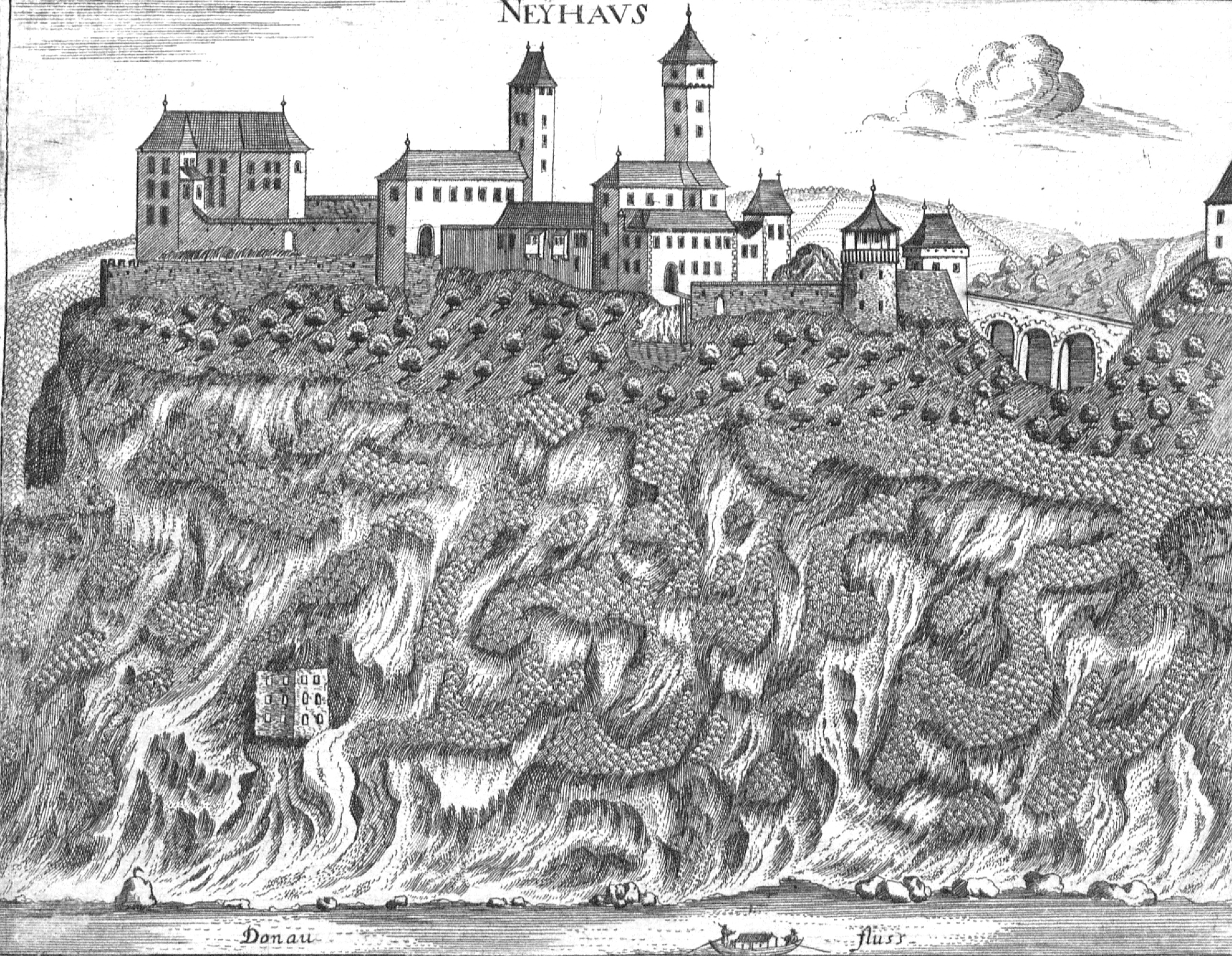 Castle Neuhaus in Upper Austria, drawing from M. Vischer 1674